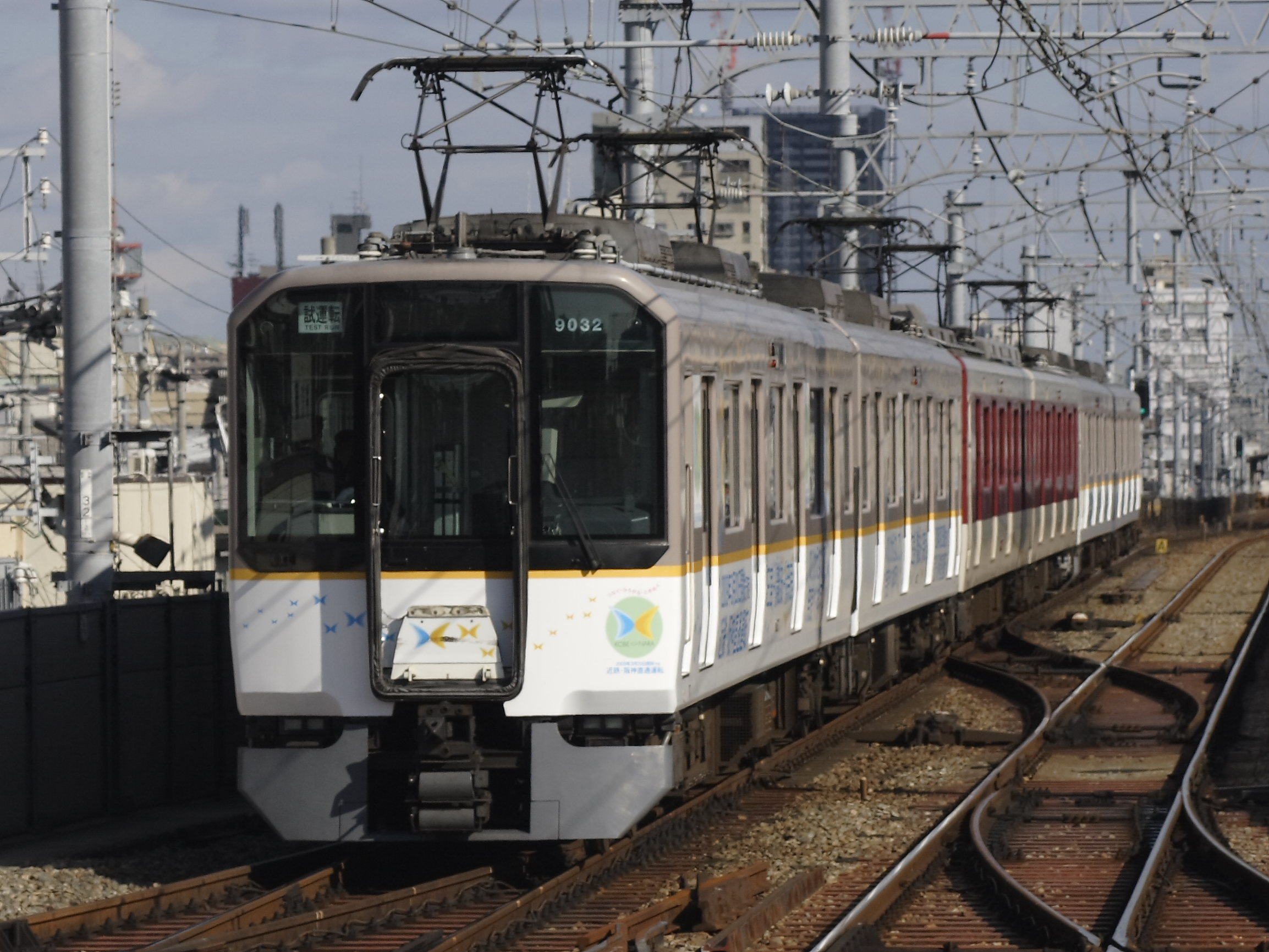 Kintetsu 9020 Hanshin Oishi Station